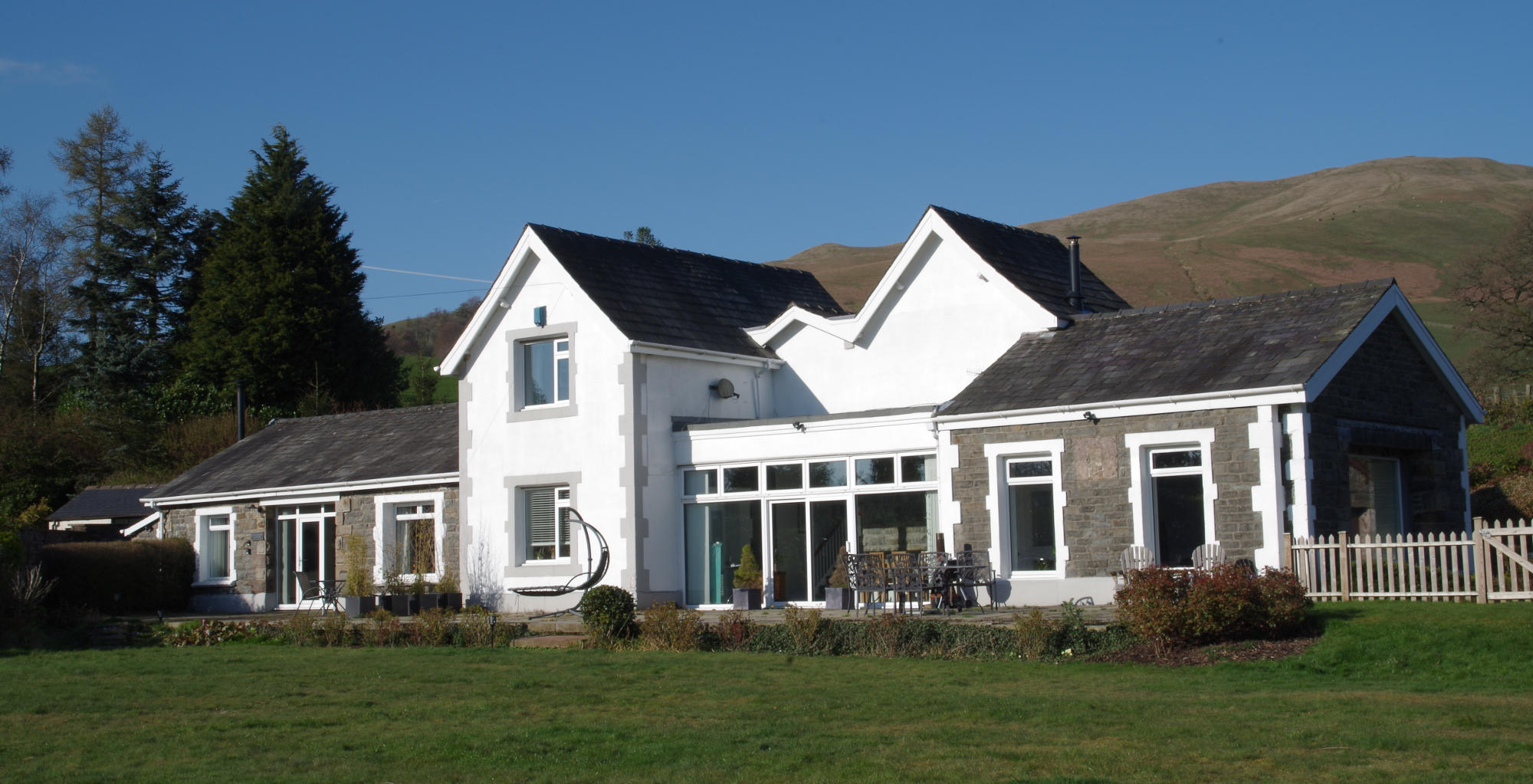 The station building at the closed Sedbergh station is now two rent-able holiday homes.